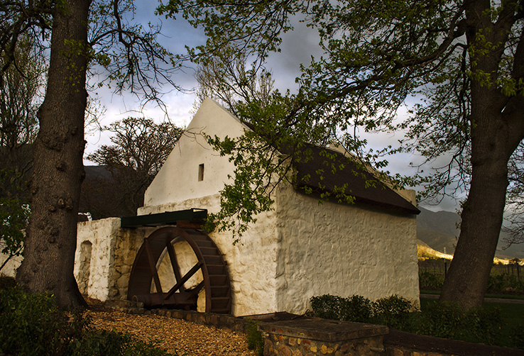 This media shows a South African Protected Site with SAHRA file reference 9/2/069/0077.